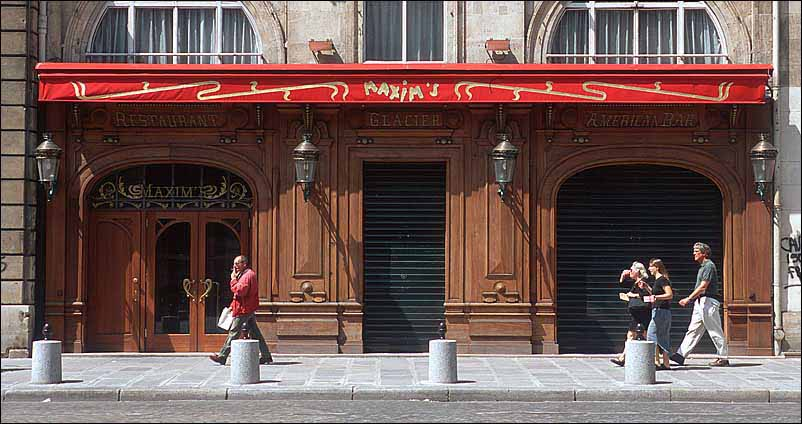 Photo of Maxim's de Paris